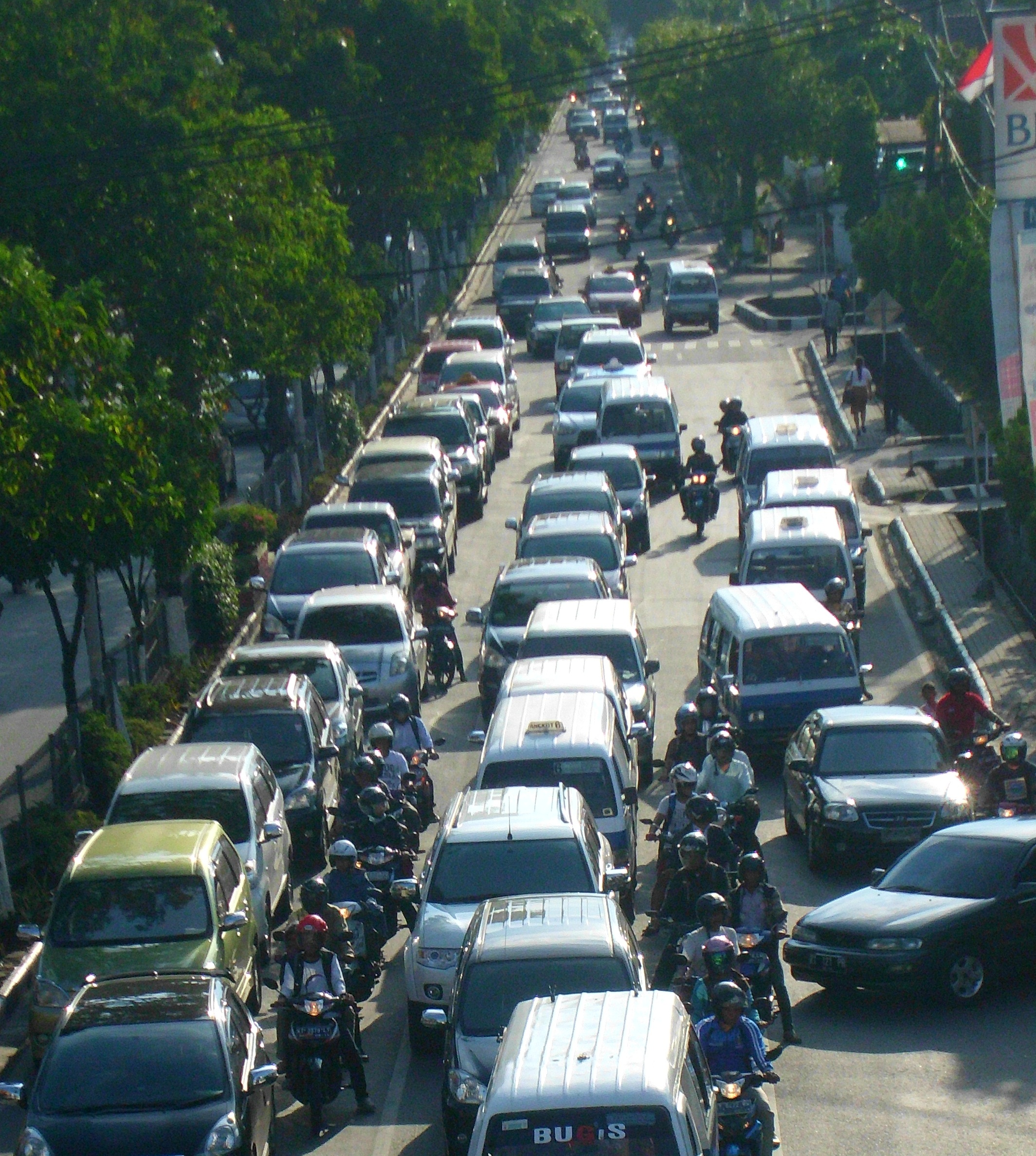 Traffic in Sudirman Street.